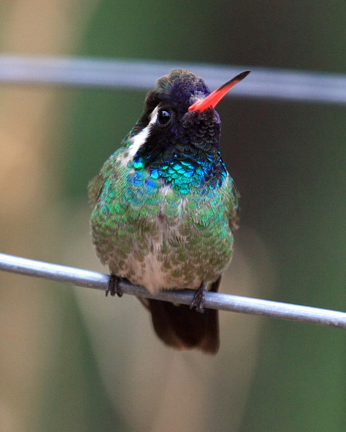 Hylocharis leucotis, Arizona.